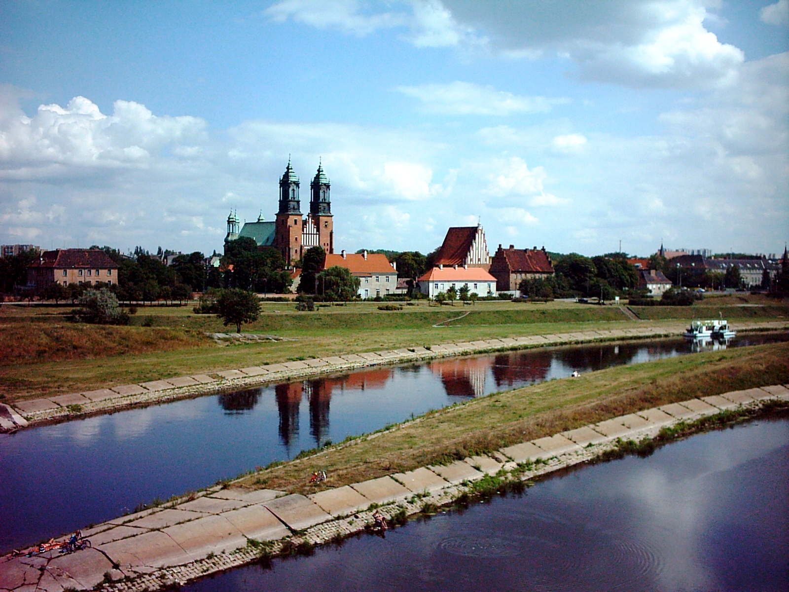 Ostrów Tumski in Poznań, Poland